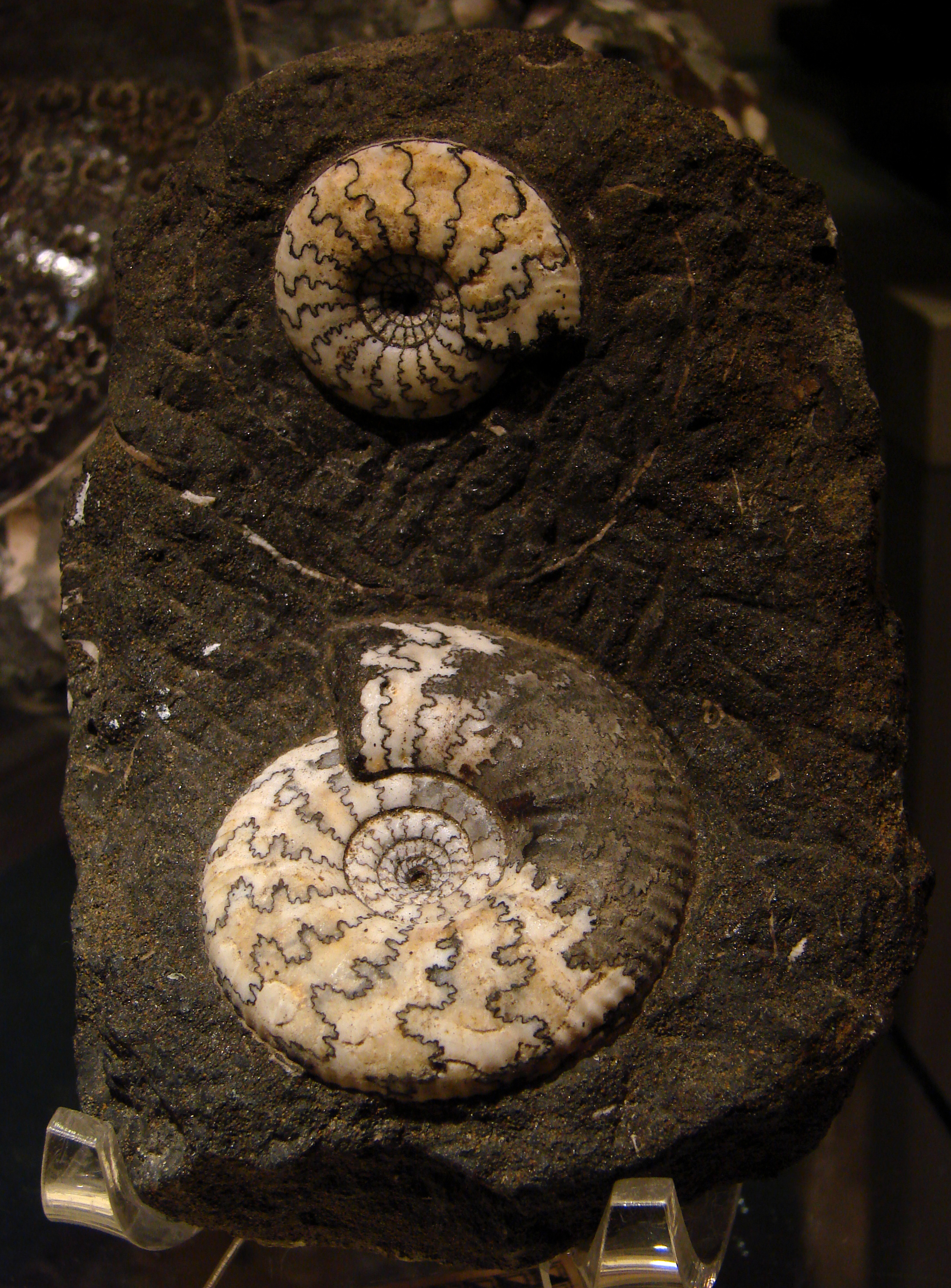 Craspedites nodiger (Eichwald 1865), Callovien. Provenance:Saratov, Russia.